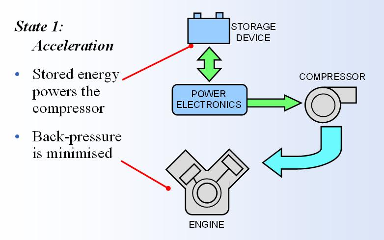 Hybrid turbocharger - acceleration mode